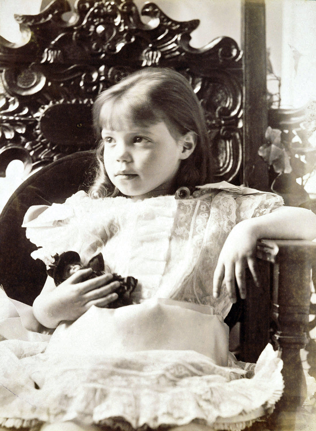 Grand Duchess Olga Alexandrovna as young girl